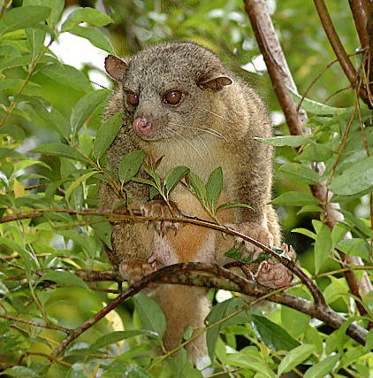 Monteverde Hummingbird Gallery, Costa Rica - January 3, 2008